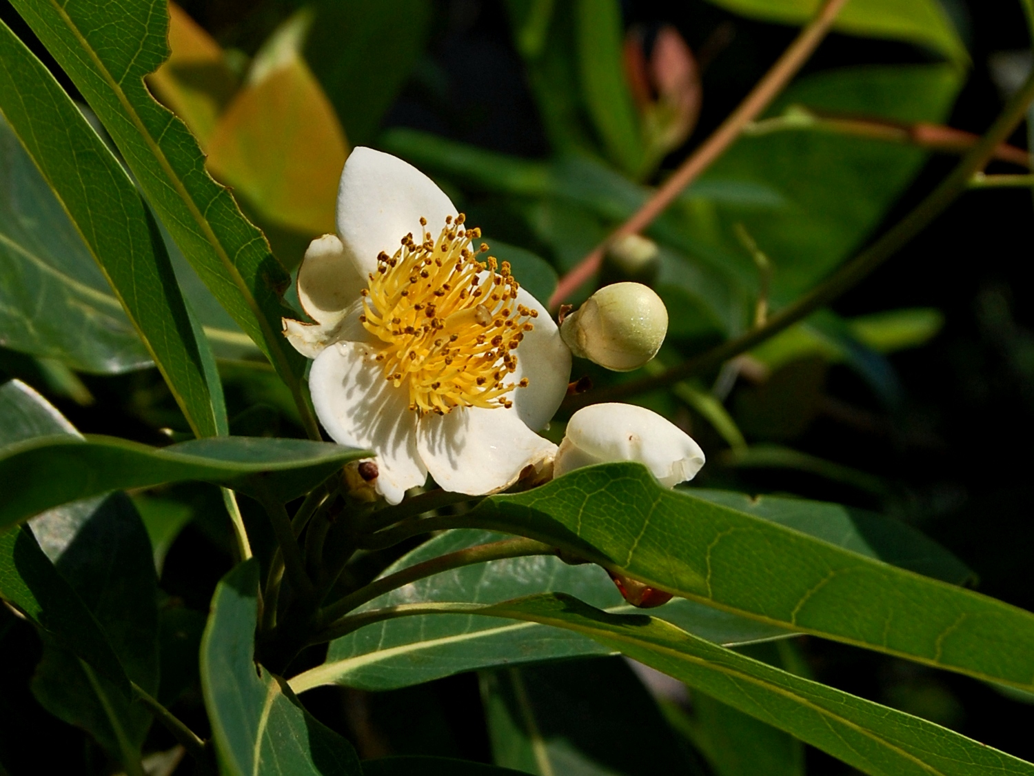 Schima wallichii, flowers close-up. From Bogor, West Java, Indonesia.